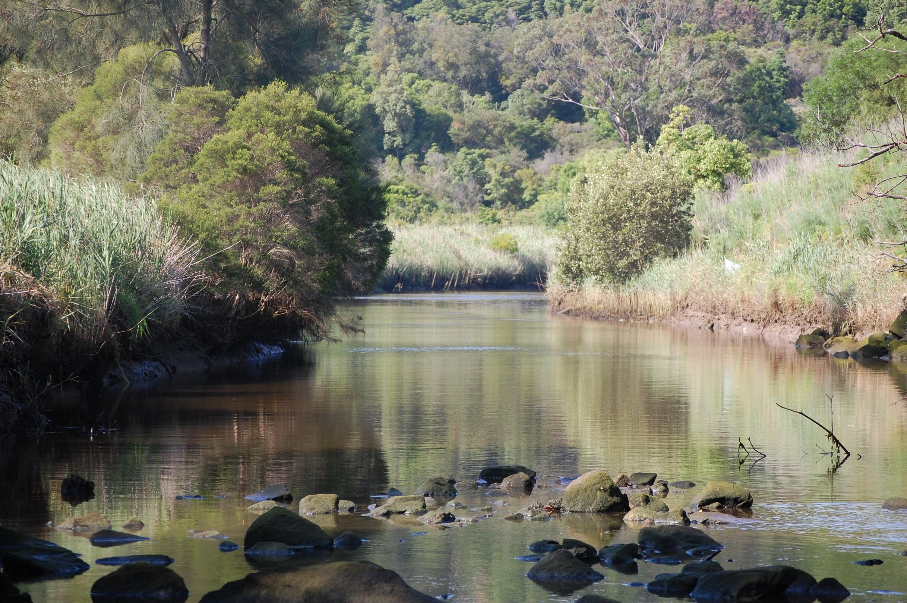 View of Wolli Creek from the Weir at Henderson Street, Turrella